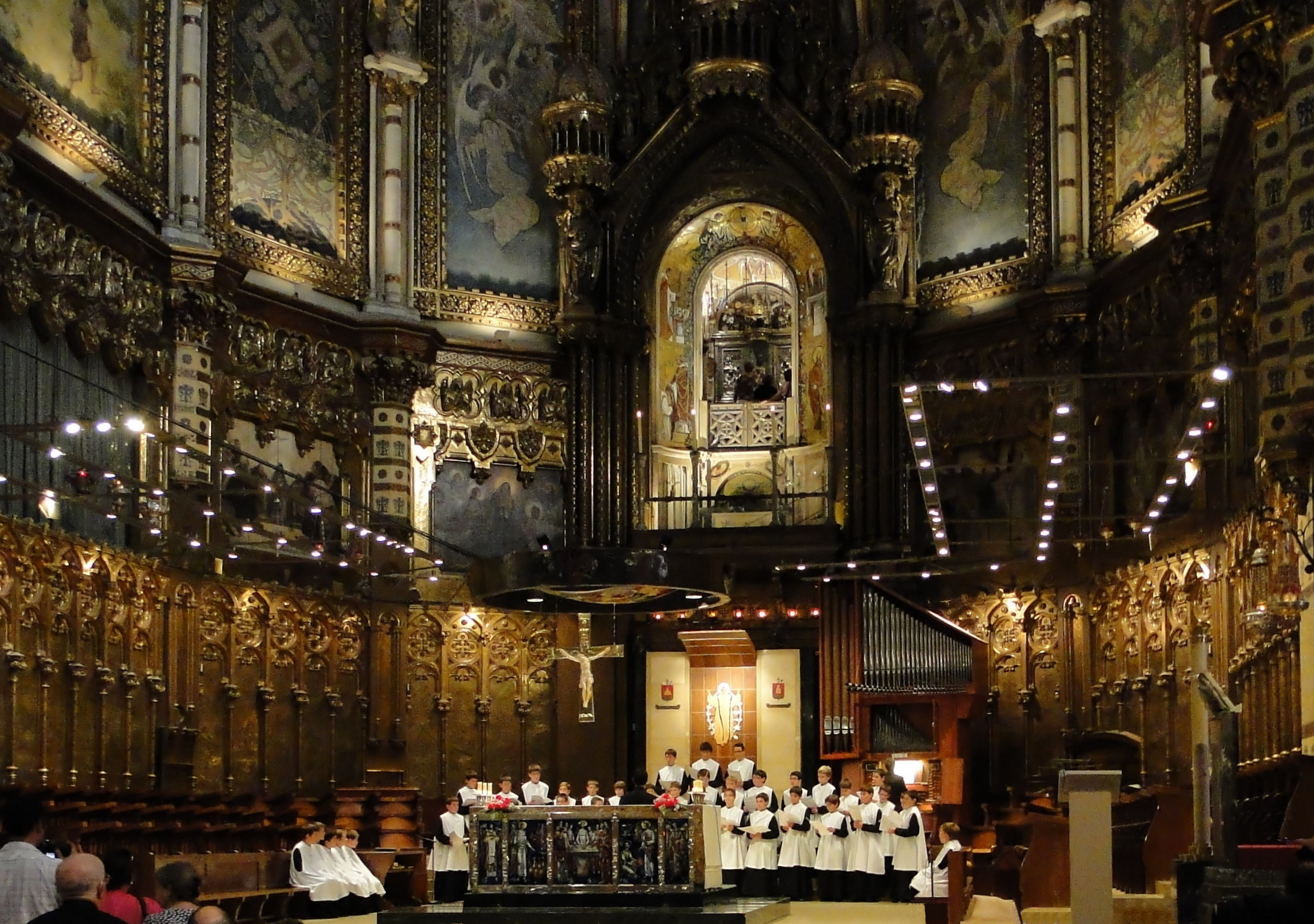 Choir of the l'Escolania de Montserrat in the basilica of the Abbey of Montserrat, Catalonia, Spain